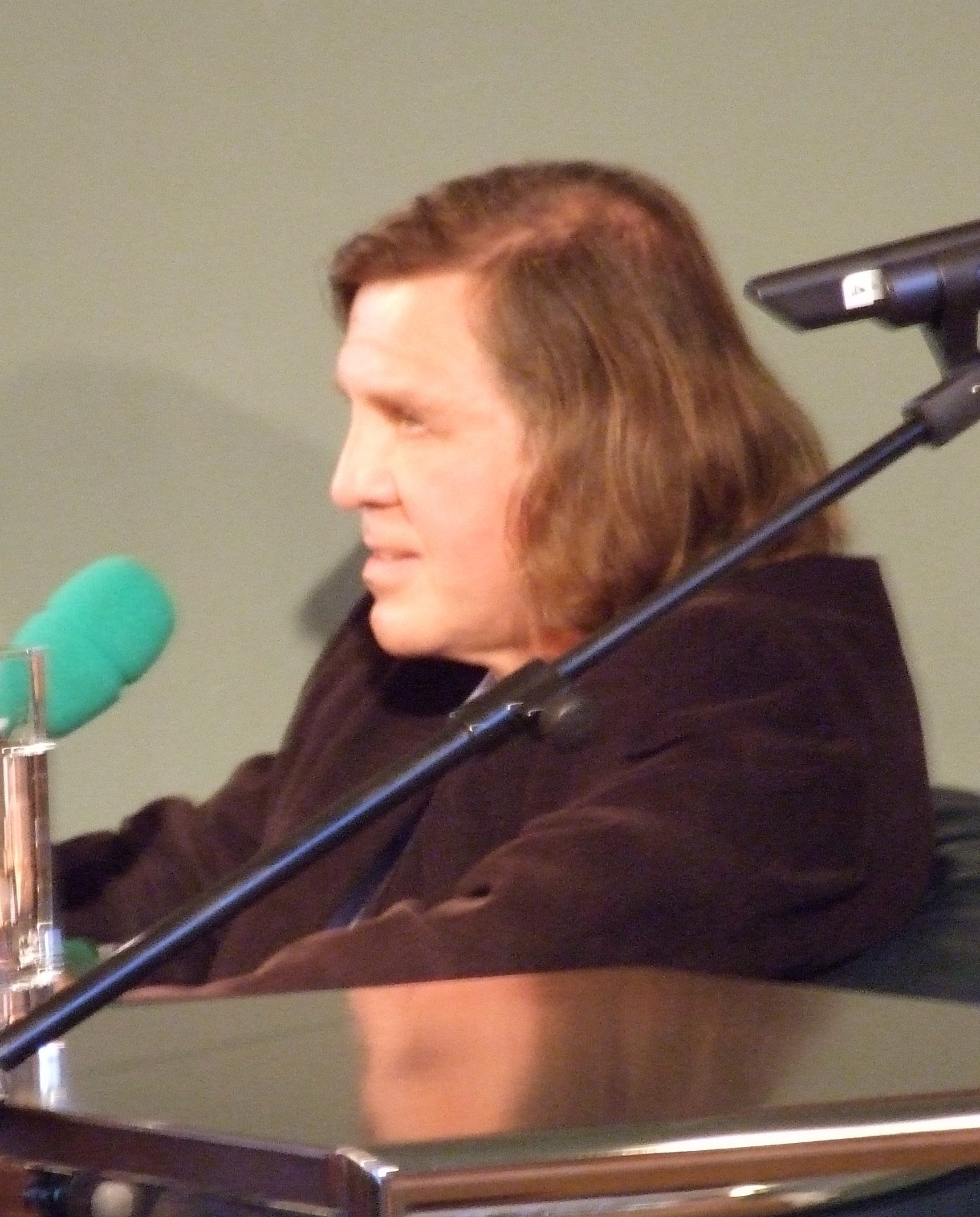 Norbert Scheuer, German writer, at shortlist presentation ("Deutscher Buchpreis" 2009) in Frankfurt am Main, Germany